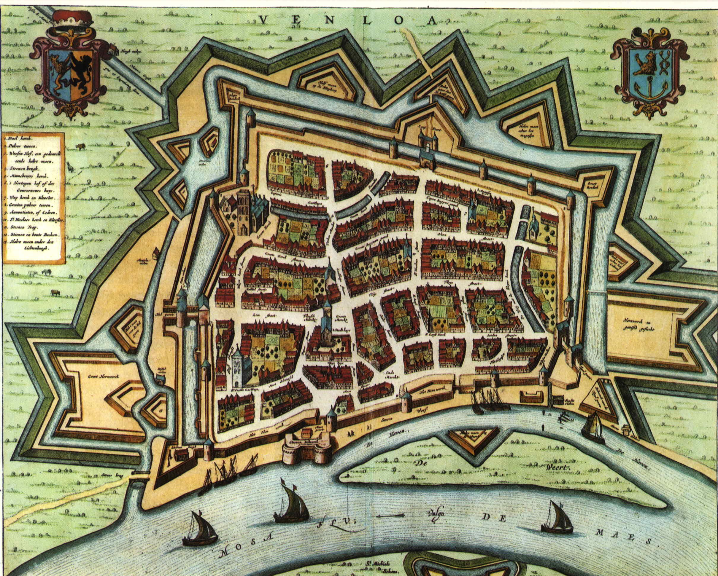 Venlo from"Blaeu's Toonneel der Steden"(Dutch city maps, Edited by Willem and Joan Blaeu), 1652.